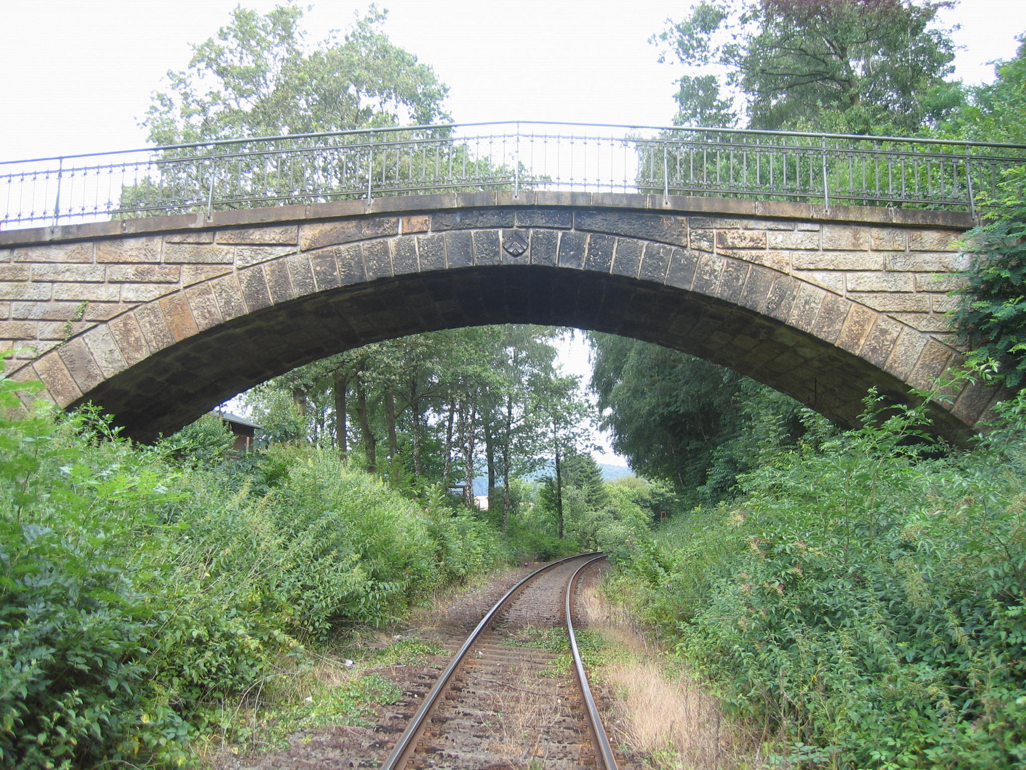 Bridge near Train station Neue Mühle in Rödinghausen, District of Herford, North Rhine-Westphalia, Germany.